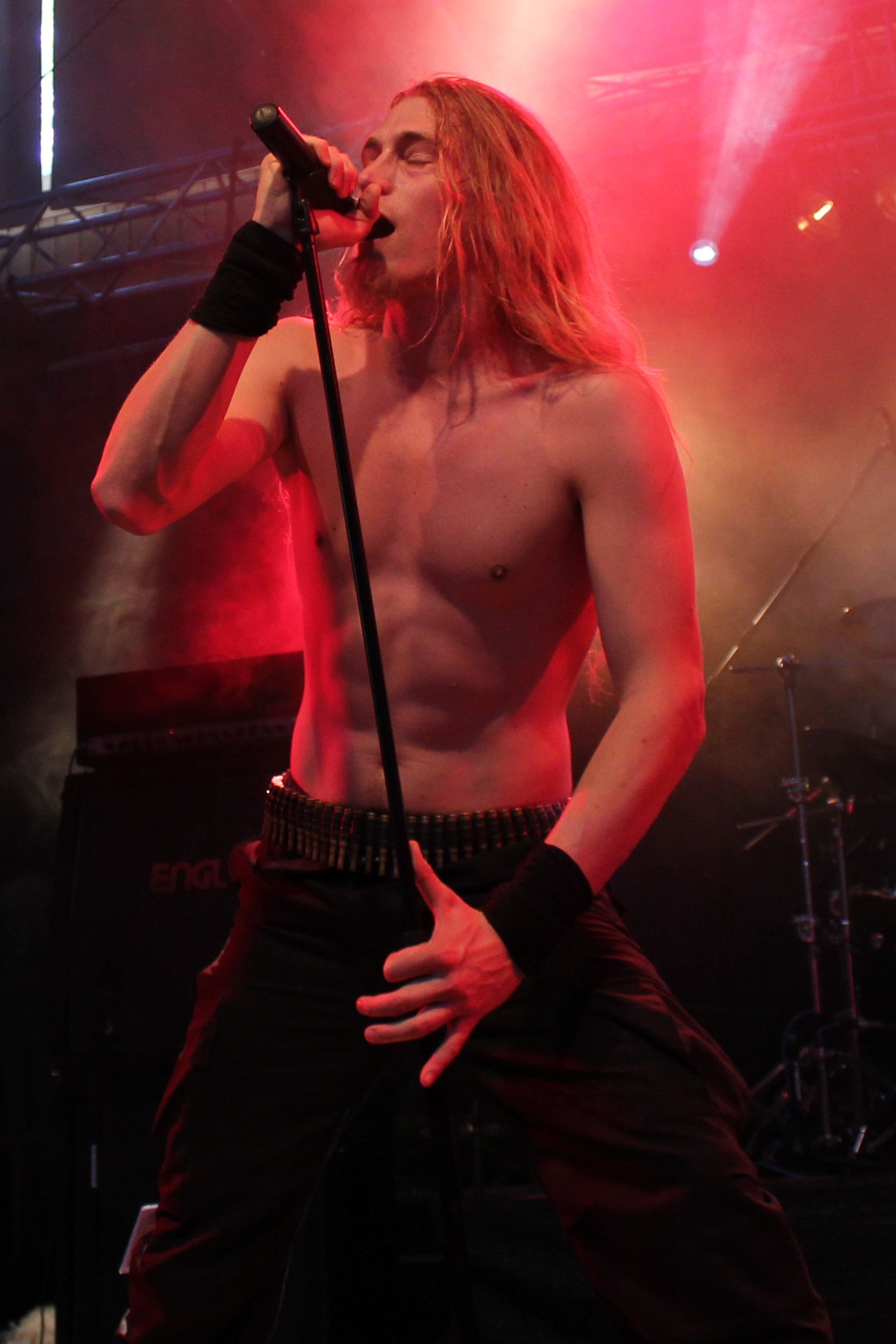 Helge Stang, singer of "Arafel" and ex-singer of "Equilibrium", live at the Ragnarök-Festival 2011